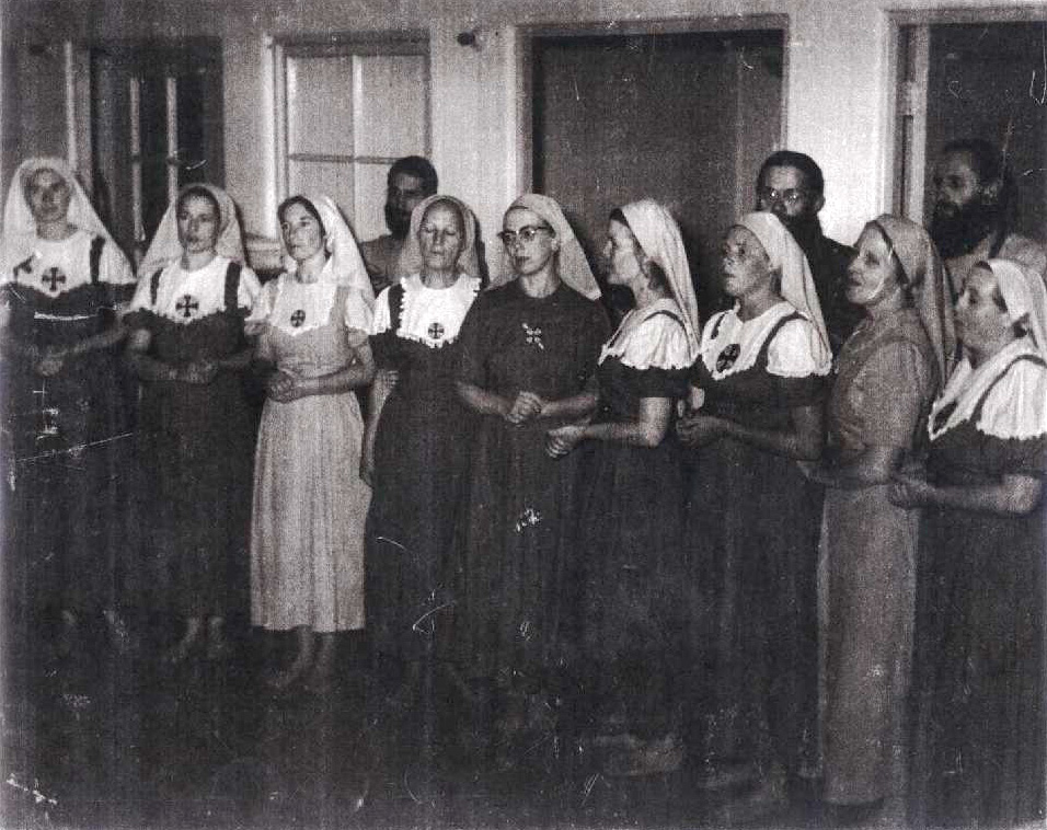 WKFL Choir at Olive View Sanatorium, Olive View, California Front L-R, Audrey, Babs, Patrice, Ruth, Jane, Elesha, Bitzi, Lila, Leta, Rear L-R Gene, Earl, Asaiah.